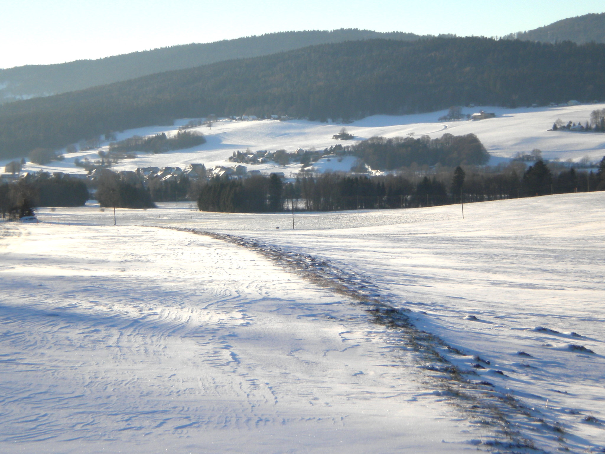 Village of Lignères, Canton Neuchâtel, Switzerland. Seen from north-eastwards.